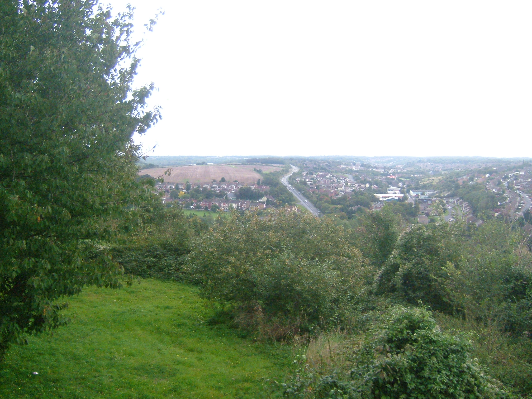 The Darland Banks are unimproved chalk grassland, in Chatham, Kent. Bordering on Gillingham they form the northern slopes of the Luton and Capstone Valleys This shot was taken from the top of Ash Tree Lane by Corral Close looking south. The road is the North Dane way which forms the boundary between town and country!